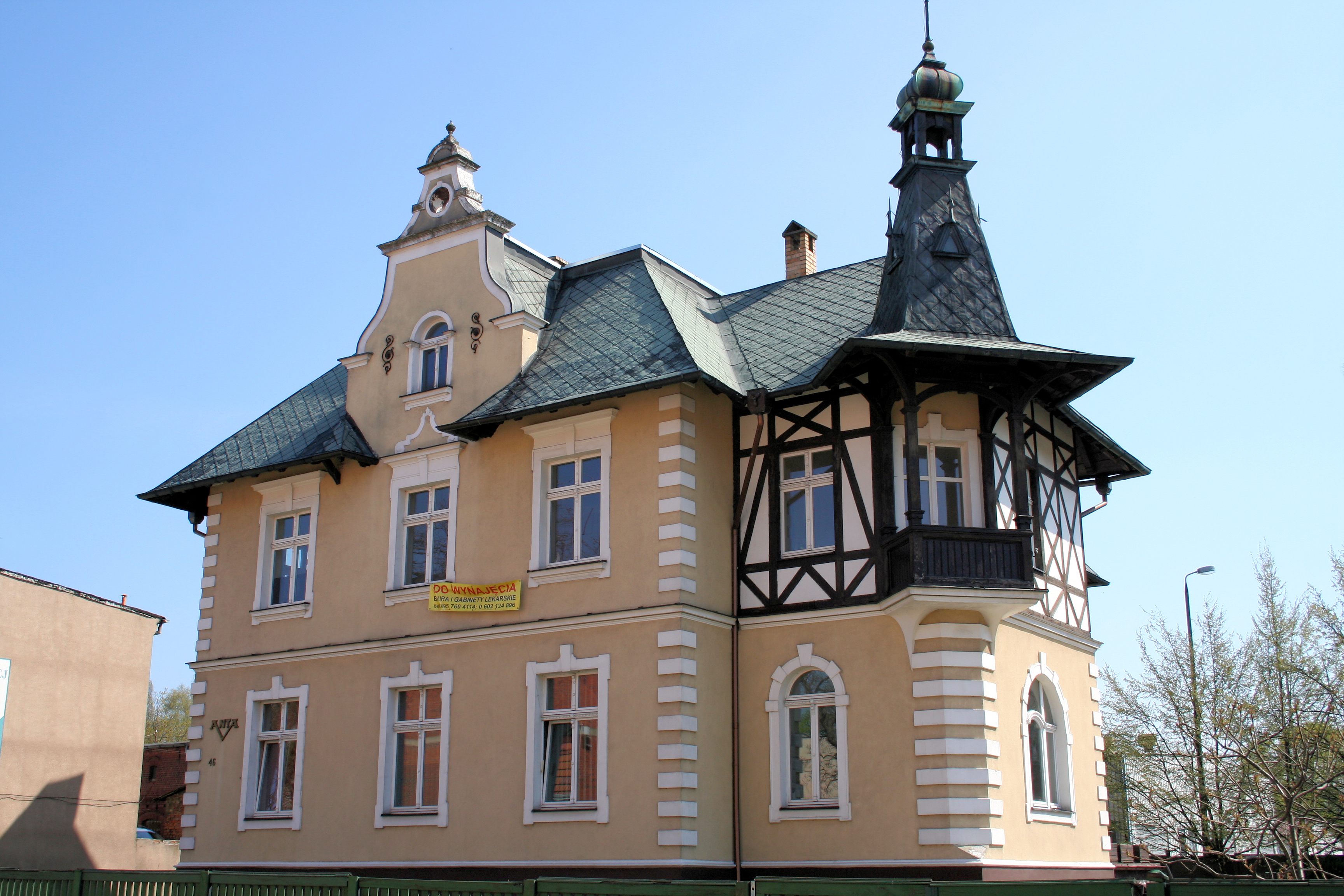 Former villa of manufacturer Schulze, Dębno